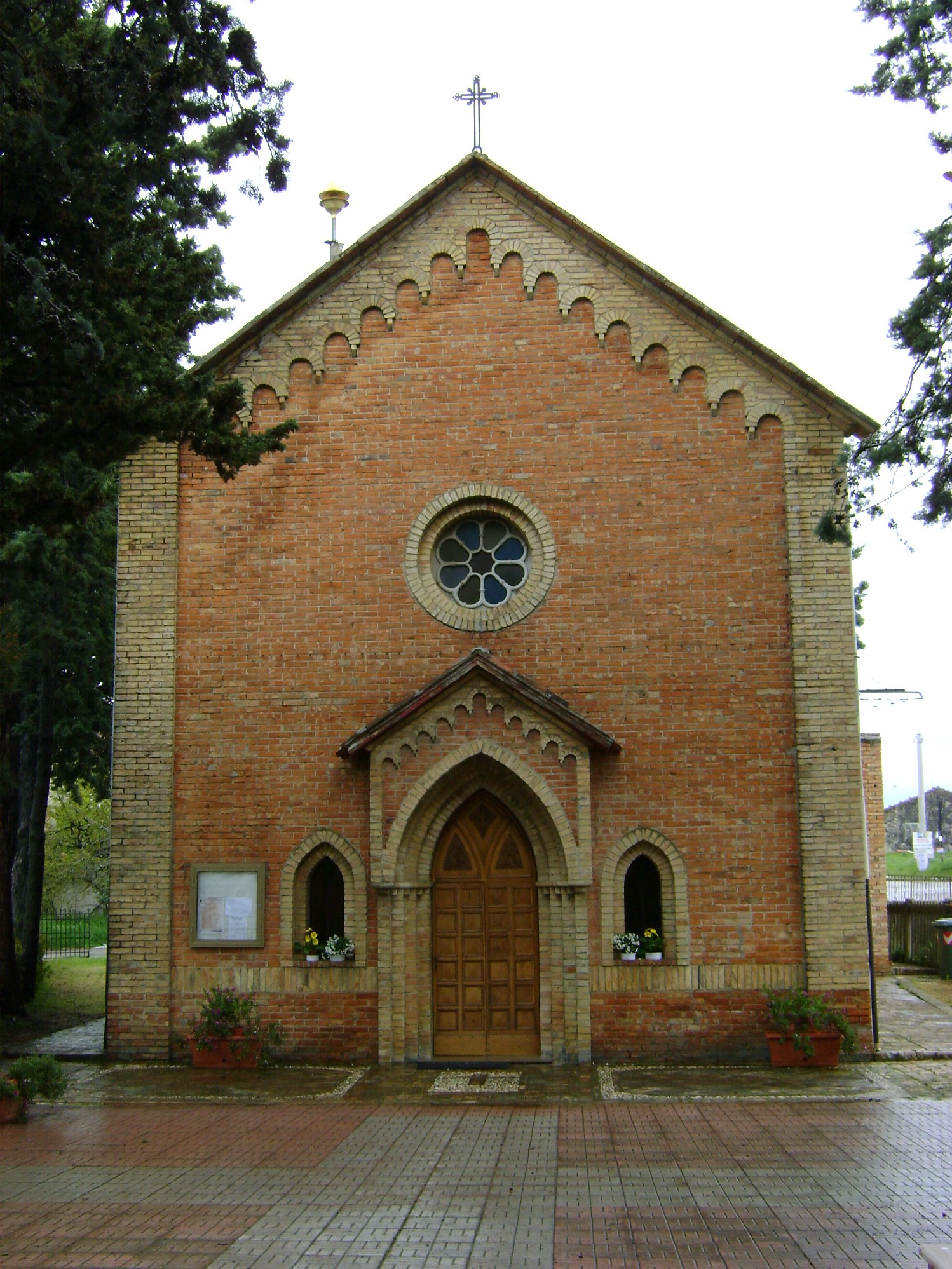 The façade romanesque of the church of St. Rocco, Castel Frentano, province of Chieti.